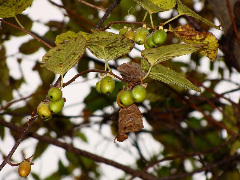 fruits on a vine of Actinidia polygama from Ōwani, Aomori, Japan